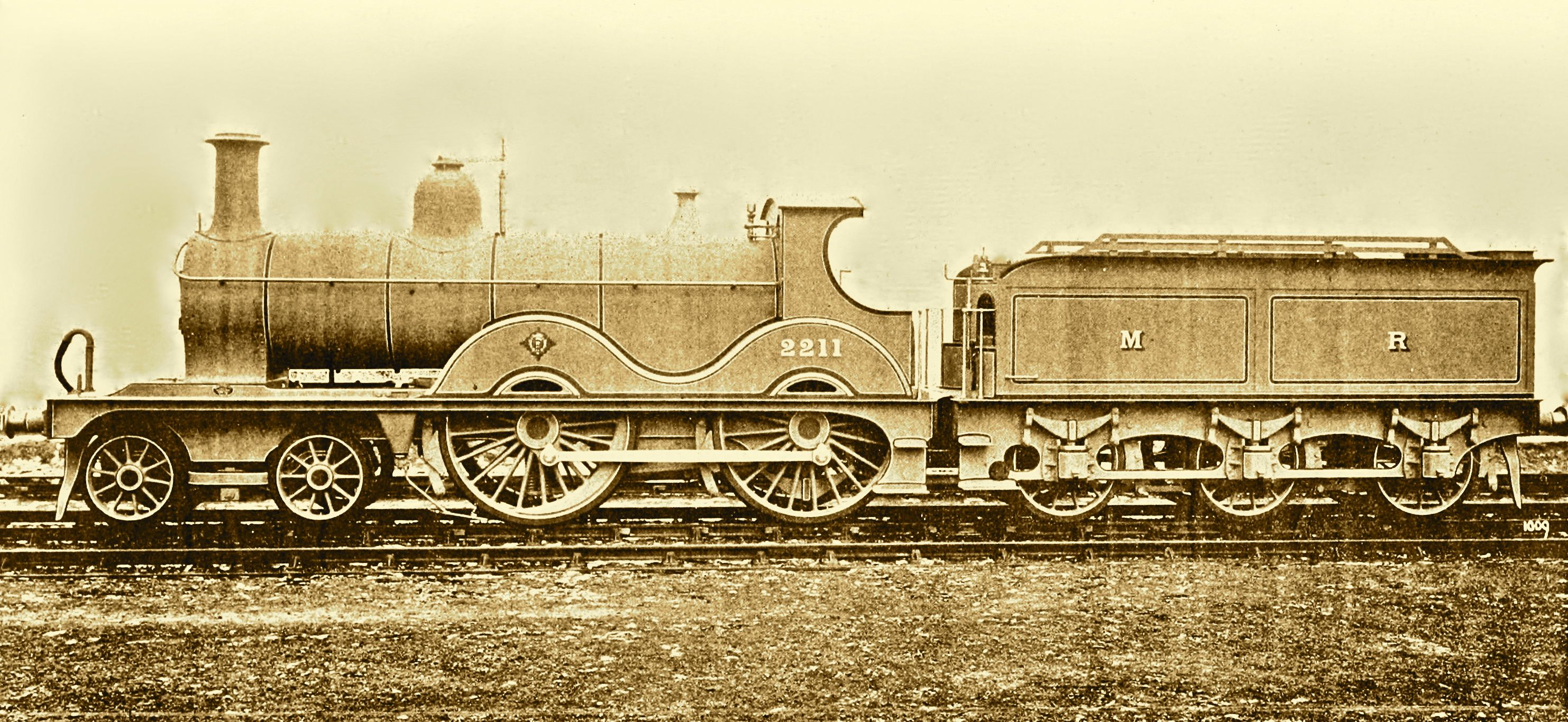 Midland Railway 2203 class 4-4-0 no 2211, built in 1893, in photographic grey livery Image is a scan of: Anonymous: “EXPRESS PASSENGER ENGINE FOR THE MIDLAND RAILWAY.” Photographic plate in American Engineer and Railroad Journal, vol. LXVIII, no. 6, August 1894, New York, p. 360. Digitizer: The Internet Archive, 2009 Text Appearing After Image: EXPRESS PASSENGER ENGINE FOR THE MIDLAND RAILWAY. Vol. LXVIII, No. 8] AND RAILROAD JOURNAL. 349 [...] EXPRESS PASSENGER ENGINE FOR THE MIDLAND RAILWAY. THE Dore and Chinley section of the Midland Railway has recently been opened, and this establishes a new express route between Liverpool and Manchester and Sheffield. The line passes over the peak district of Derbyshire on gradients that are very severe throughout. The engine which we illustrate is one of the type of 20 which have been built for this special service. Fifteen of them have been built by Sharp, Stewart & Company and five by the Midland Company. The diameters of the cylinders are 18½ in. with a stroke of 26 in. The driving-wheels are 6 ft. 6 in. in diameter, and the boiler carries a pressure of 160 lbs. per square inch. The capacity of the tenders is 3,250 galls. of water. The standard size of driving-wheels for the Midland engines is 7 ft., but these have been made 6 in. smaller on account of the gradients.